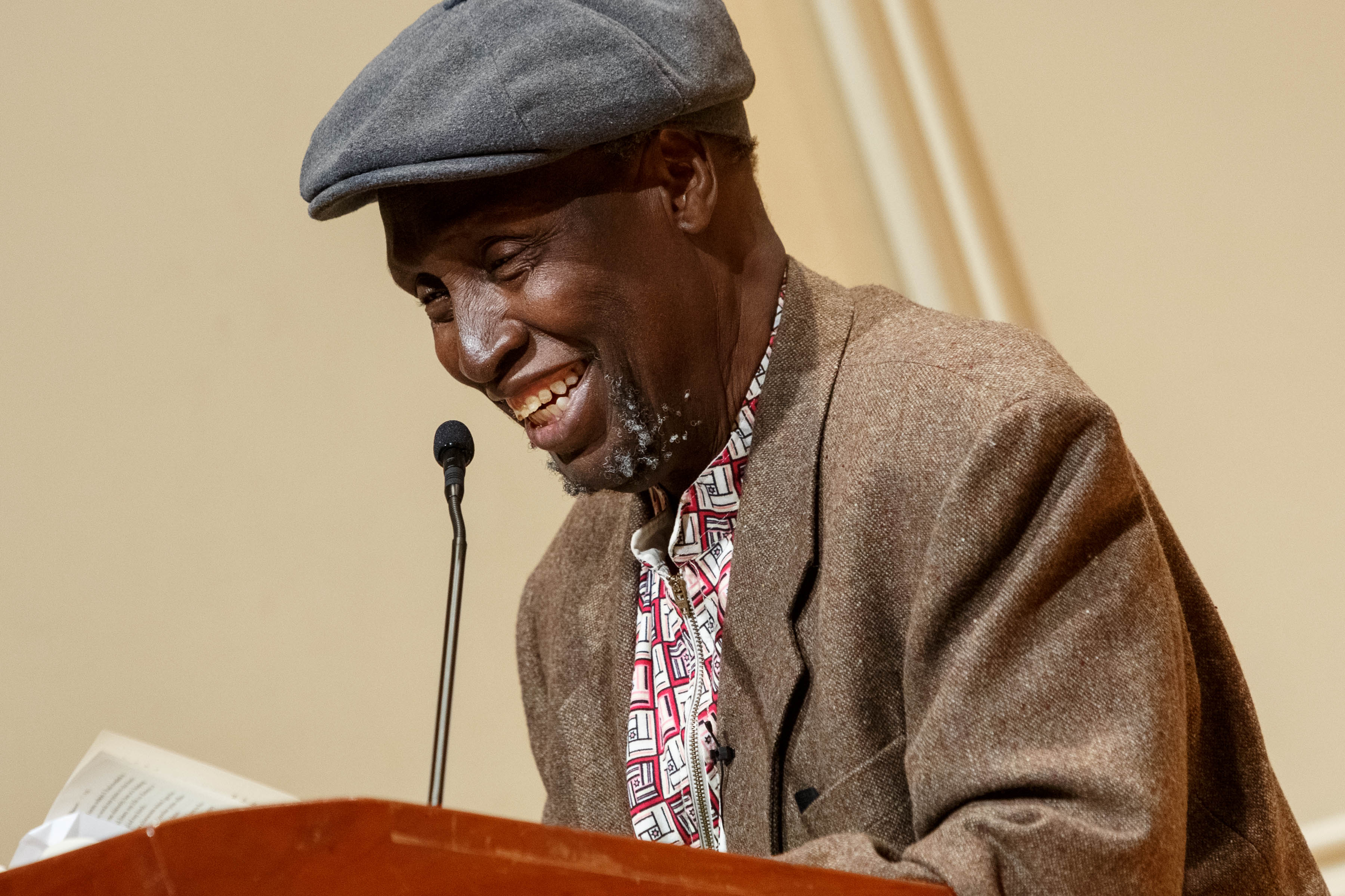 Renowned Kenyan writer Ngũgĩ wa Thiong'o reads excerpts from his recent work in both Gikuyu and English during a presentation in the Coolidge Auditorium, May 9, 2019. Photo by Shawn Miller/Library of Congress. Note: Privacy and publicity rights for individuals depicted may apply.